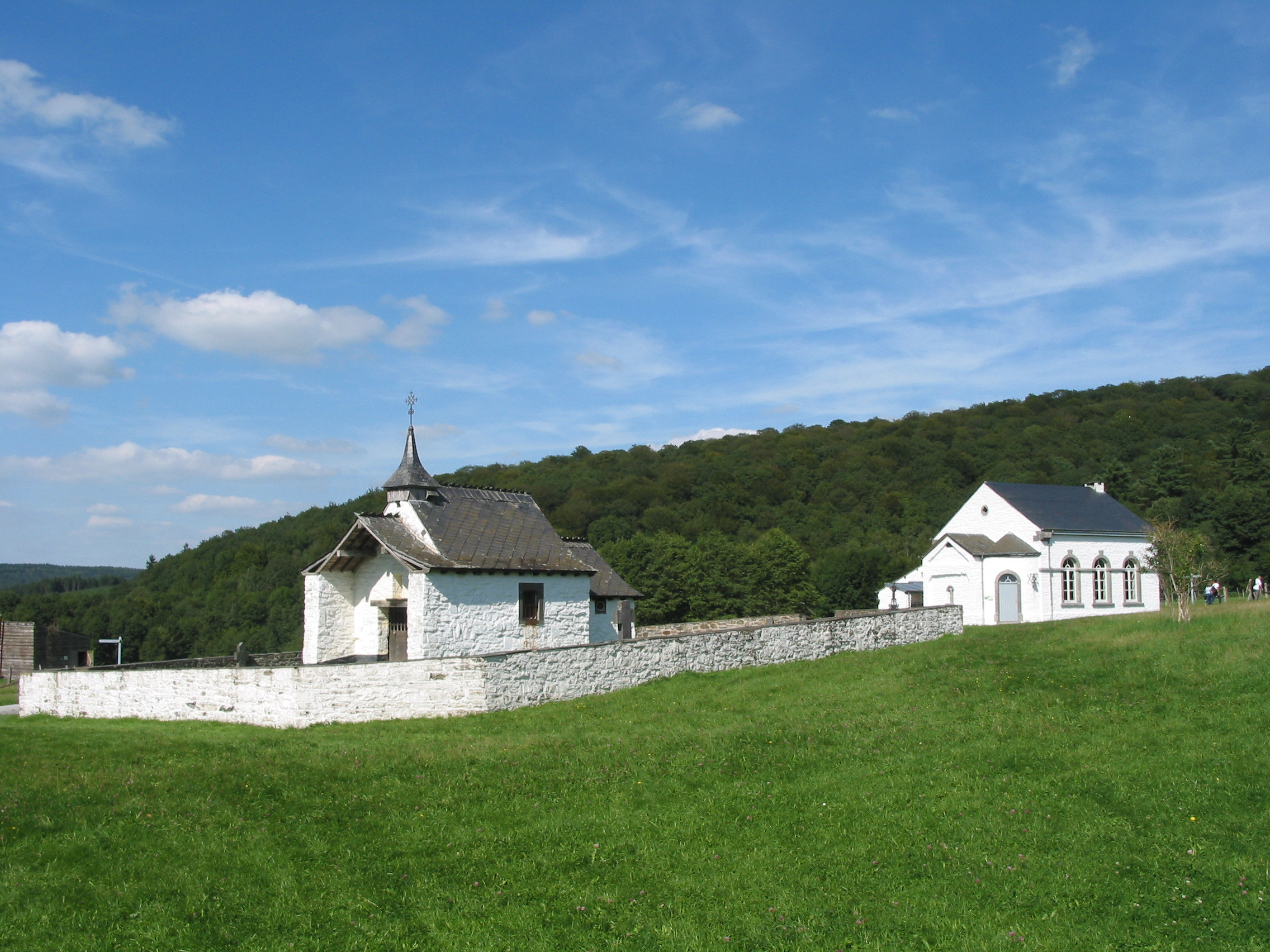 Saint-Hubert (Belgium): St. Michael's Furnace property – Museum of Country Life in Wallonia – Morhet elementary school and Grand-Halleux chapel (18th century) transplanted and reconstituted at this location (1982–1983).